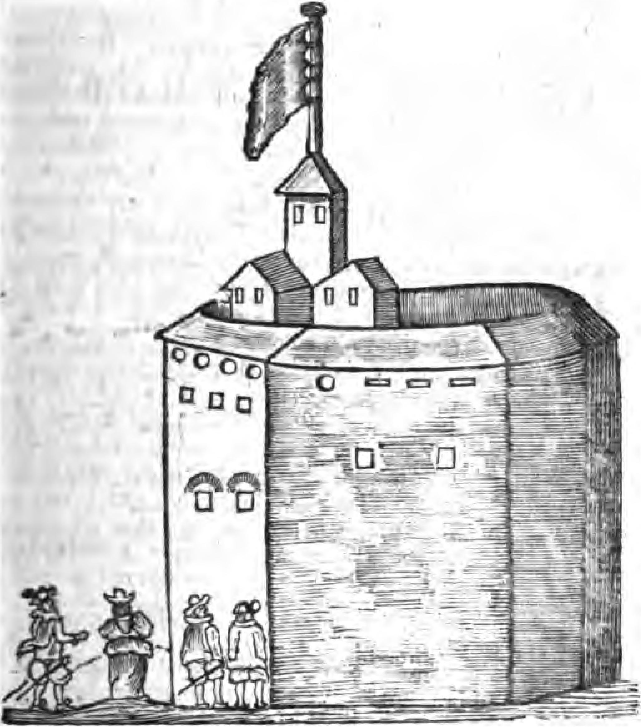 The Globe Theatre from the "long Antwerp View of London in the Pepysian Library". Probably either from a draft sketch for the Visscher panorama, or a slightly inaccurate print of the finished version. In any case, it is unlikely to be from the Long View of London from Bankside by Wenceslaus Hollar as the title might suggest.